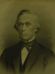 William Cannon of Delaware (1809-1865). Charcoal portrait; 26 1/2" x 32".